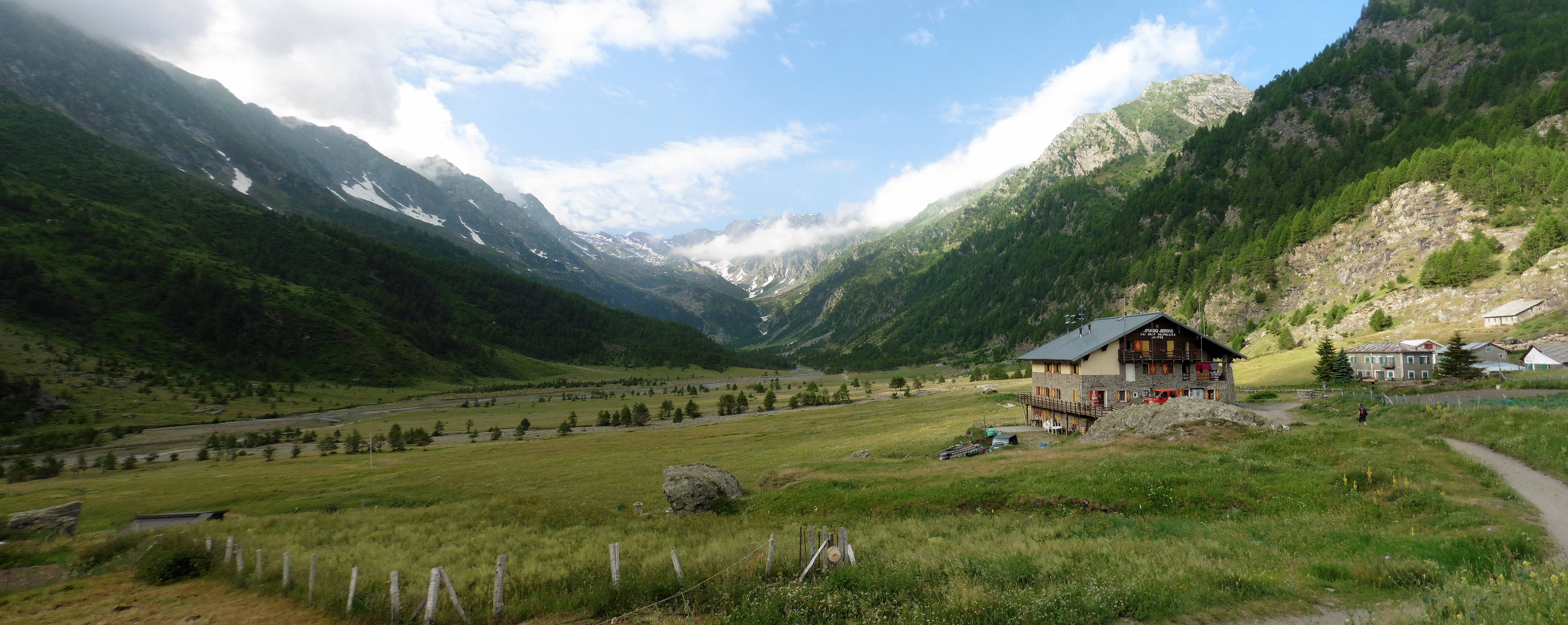 Rifugio Willy Jervis and the Conca del Pra - Val Pellice - Cottian Alps - Italy. Seen from north.